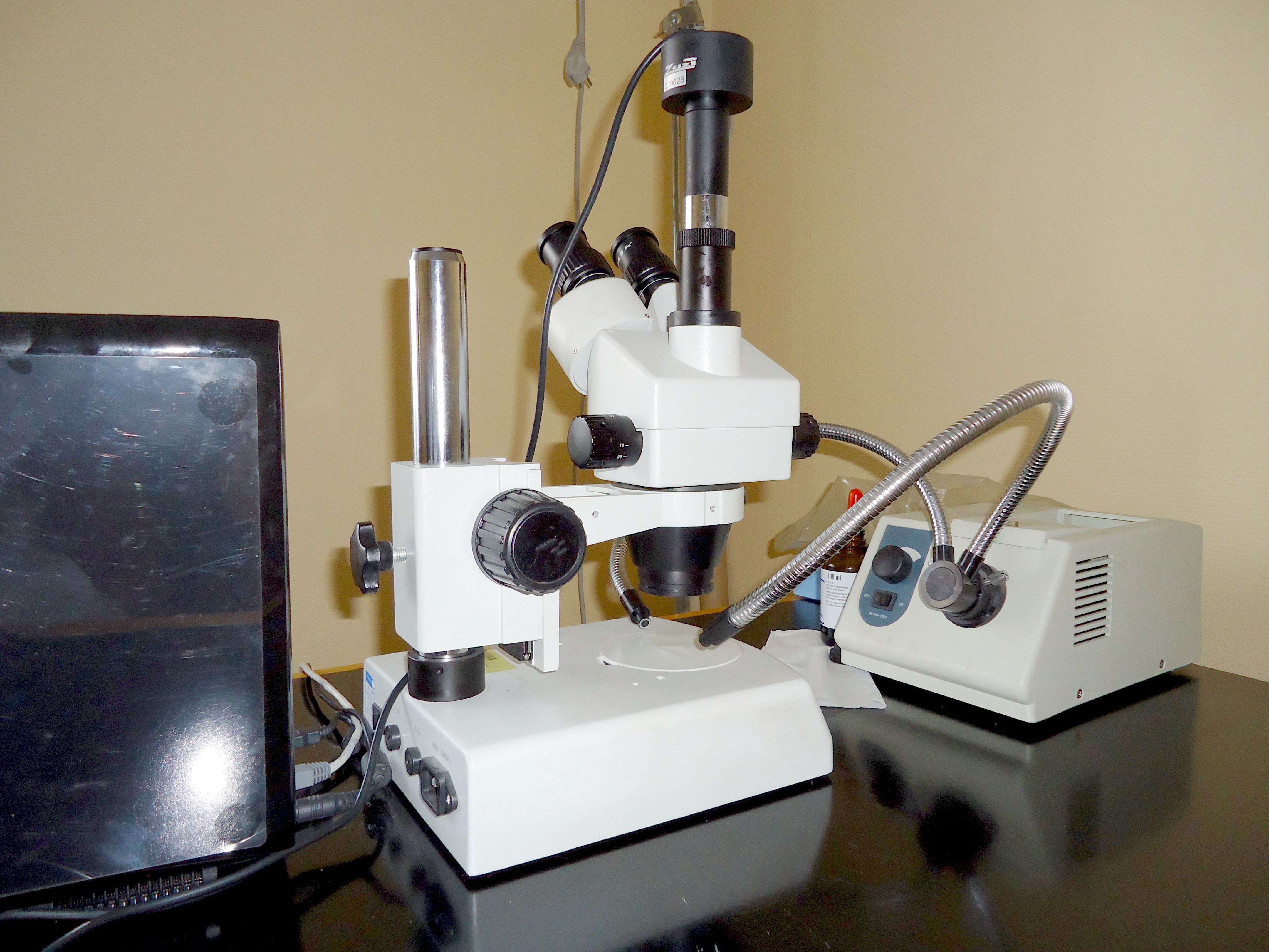 a trinocular steromicroscope with an attached digital video camara to be use as a videocapillaroscope for nailfold video capillaroscopy